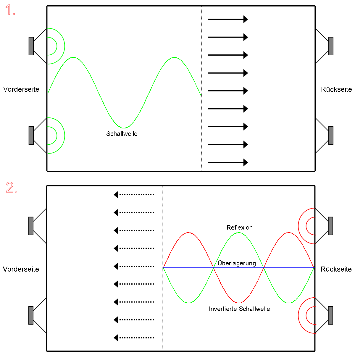 DBA: plane wavefront interfering with inverted wavefront from the back.